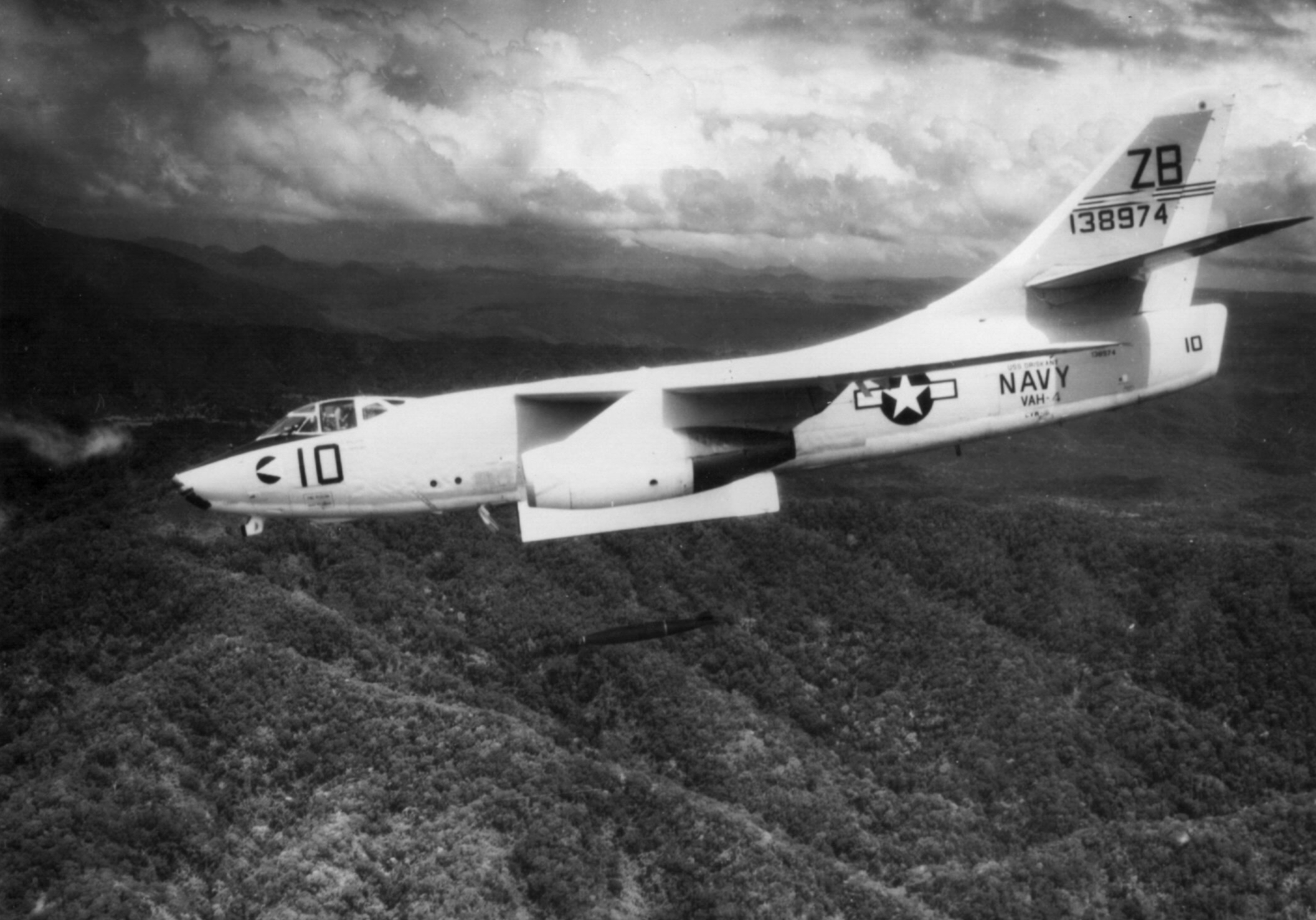 A U.S. Navy Douglas A-3B Skywarrior (BuNo 138974) from Heavy Attack Squadron VAH-4 Fourrunners Det.G dropping a Mk 83 454 kg bomb in South Vietnam. VAH-4 Det.G was assigned to Attack Carrier Wing 16 (CVW-16) aboard the aircraft carrier USS Oriskany (CVA-34) for a deployment to Vietnam from 5 April to 16 December 1965.